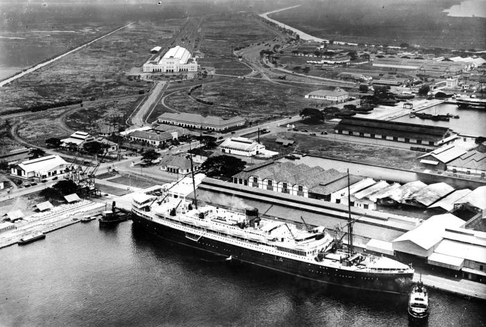 The port of Tandjoengpriok with the railway station in the background, Batavia, Java. The ship is the MV Pieter Corneliszoon Hooft, after her 1930 refit giving her a shorter funnel and before her 1932 fire.